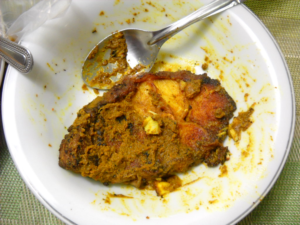 Ikan goreng kunyit, cuisine of Bangka.